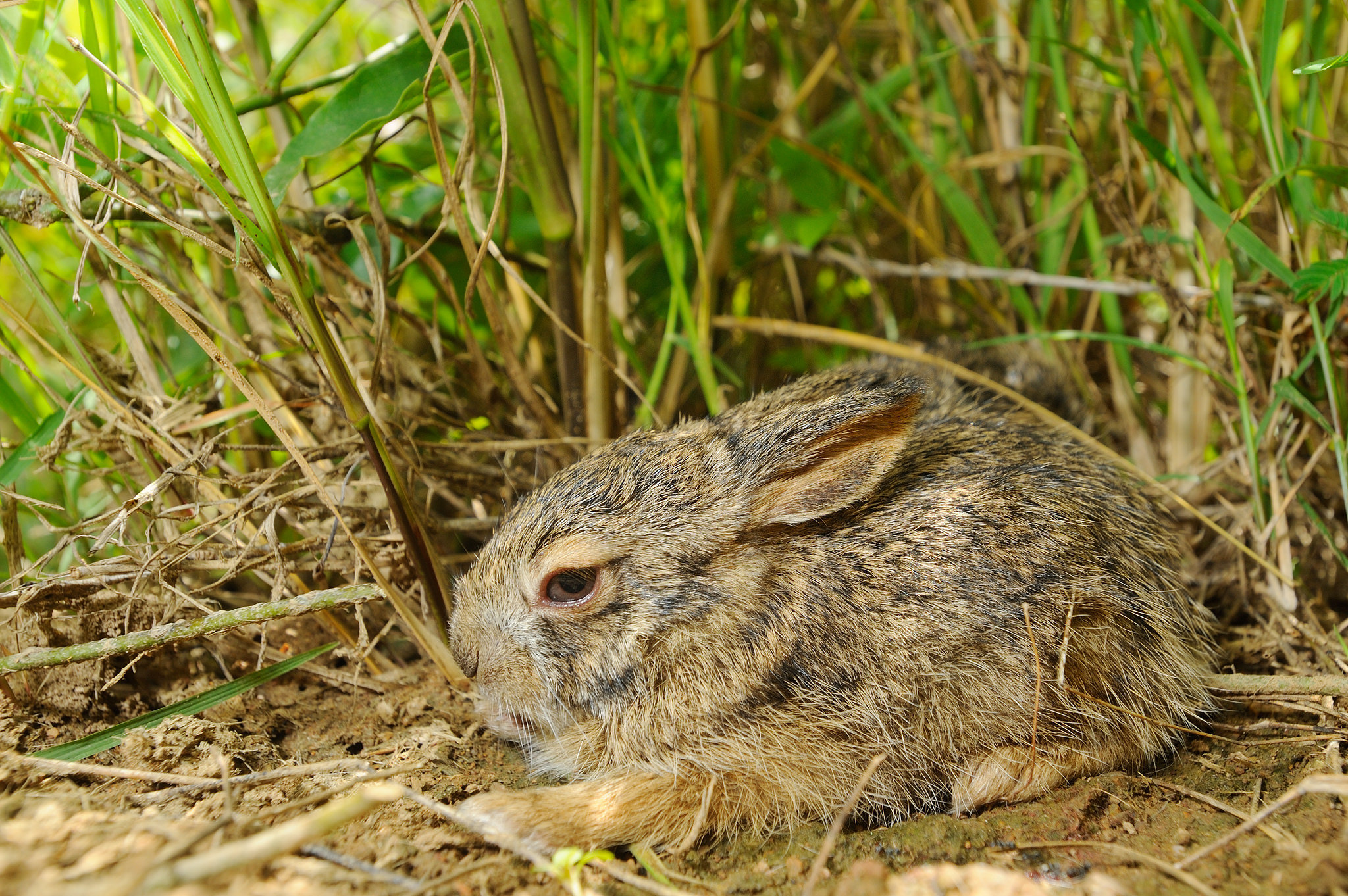 Siamese Hare juvenile, Lepus peguensis, in Kui Buri national park, Thailand. This photo is published under the Creative Commons Attribution-Share-Alike Licence. You are free to use this image, as long as it is shared with attribution under the same licence together with the appropriate credits: By: Tontan Travel Link